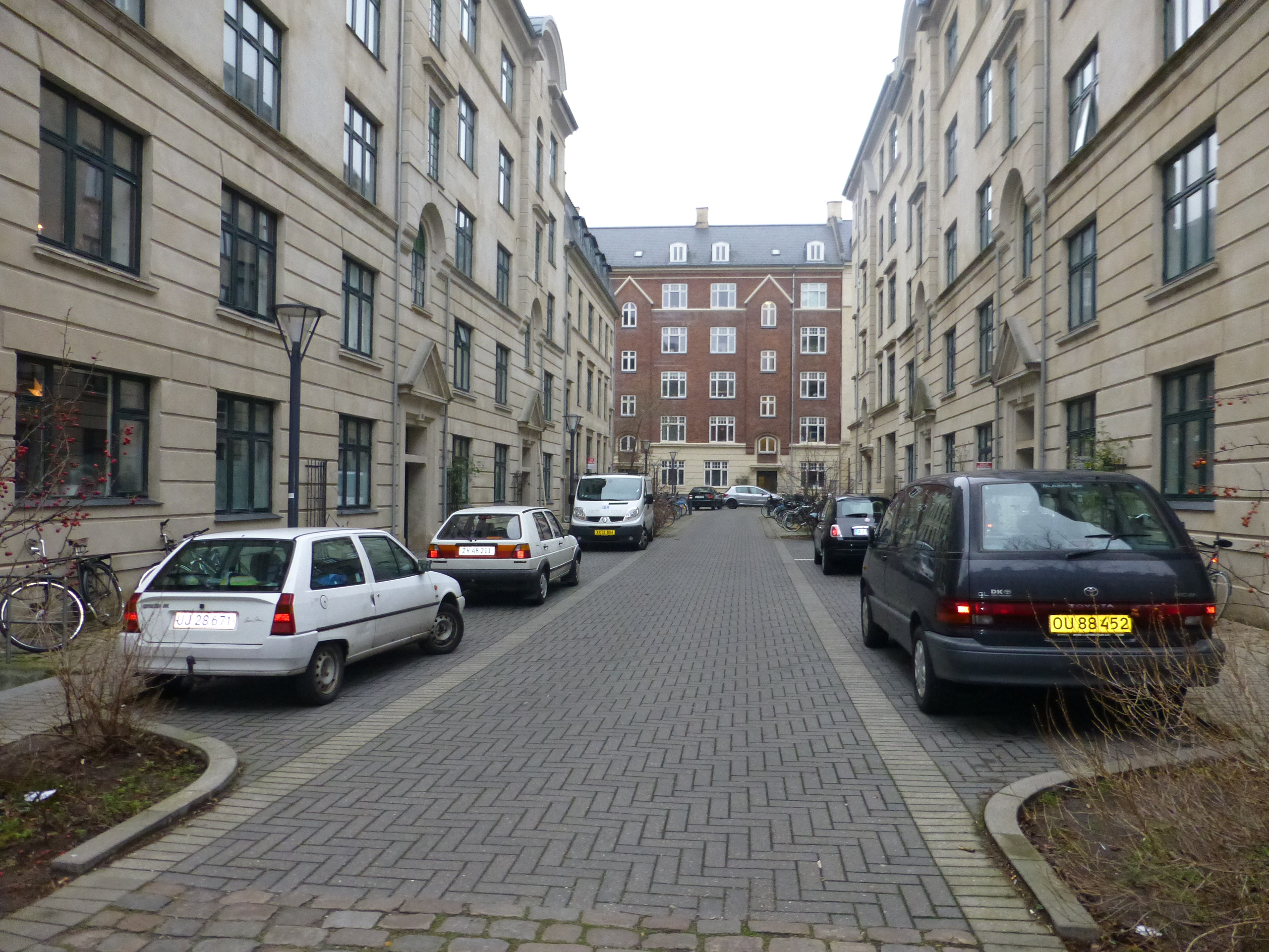 The street Ballumgade in Vesterbro in Copenhagen.